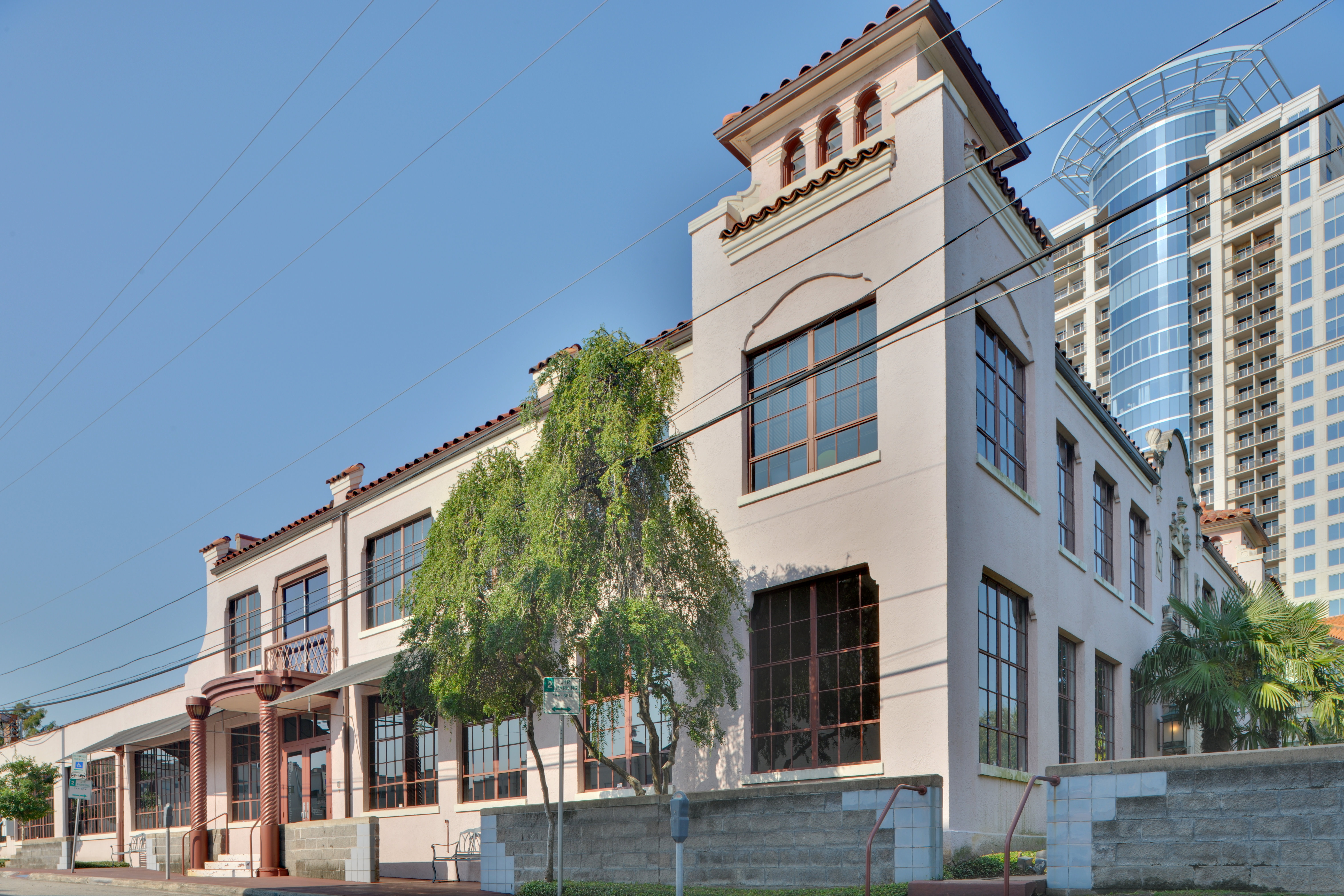 The Star Engraving Company Building, 3201 Allen Parkway, Houston (Texas, USA), is listed in the National Register of Historic Places, United States Department of the Interior.